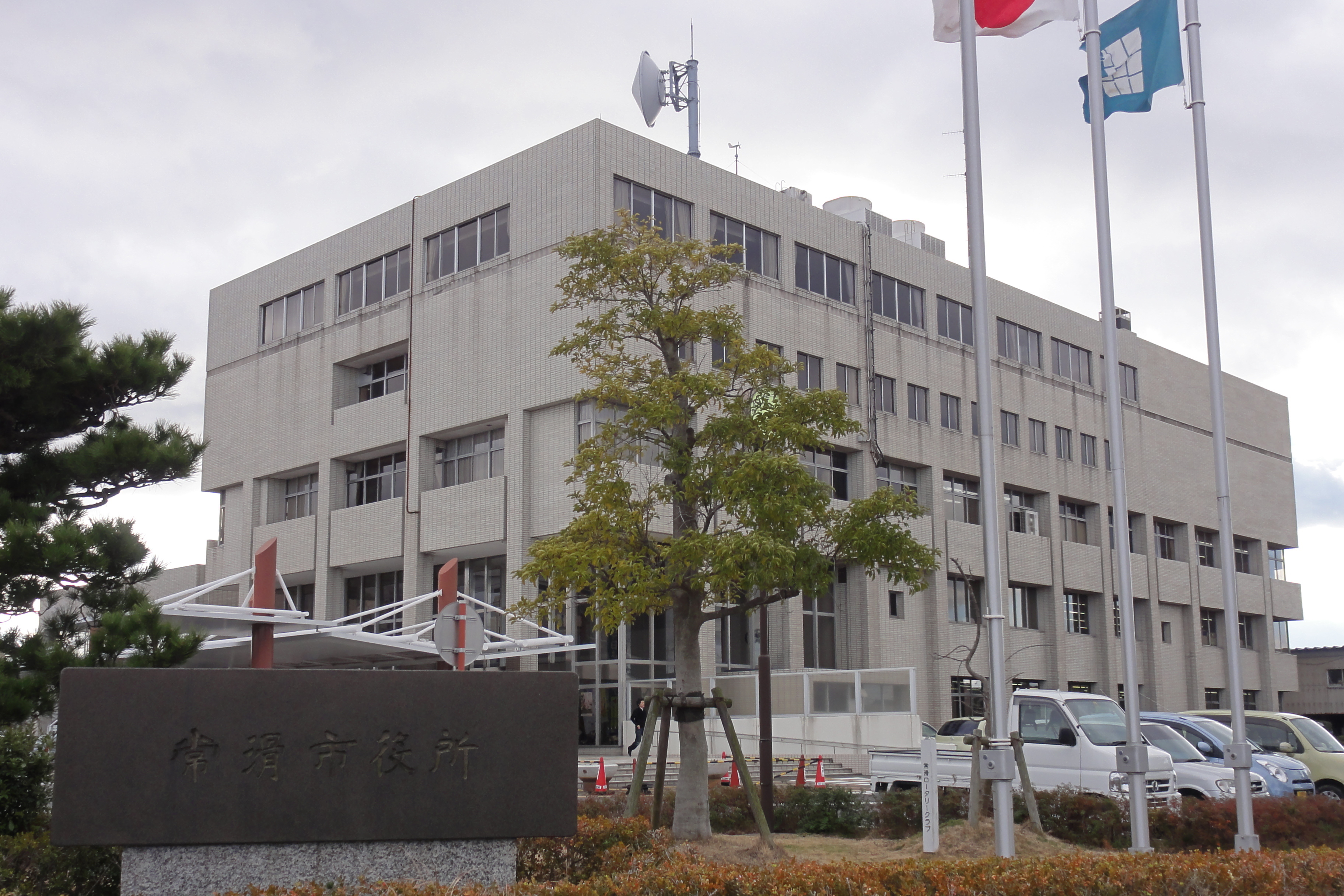 Tokoname city office,Aichi prefecture,Japan